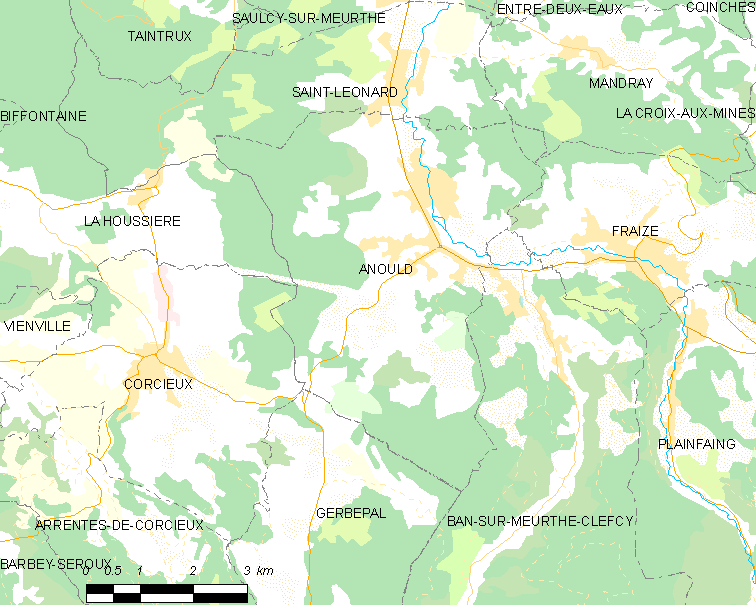 Map of French municipality Anould